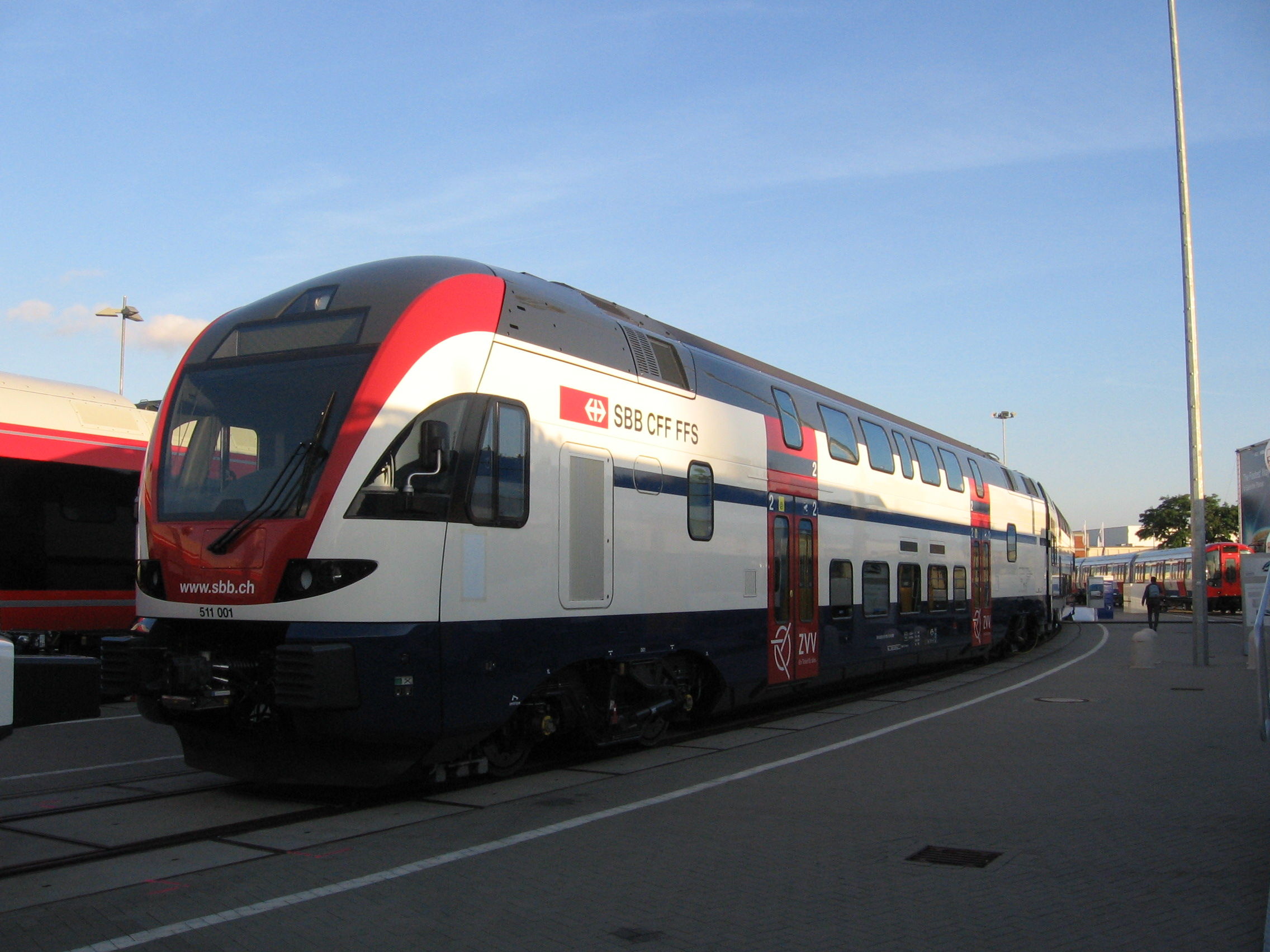 SBB Class RABe 511 unit made by Stadler displayed at the Innotrans Berlin.